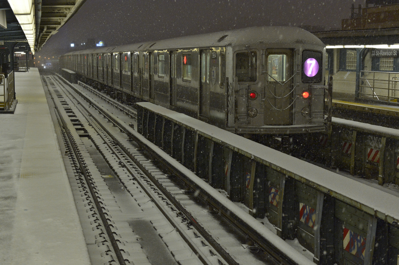 7 trains were readied for storage underground in Manhattan, where they would be protected from the storm. However, as the severity of the storm lessened, 7 Train service continued to Manhattan throughout the weekend. There was early anticipation that service would have been suspended in Manhattan. Photo: Metropolitan Transportation Authority / Patrick Cashin